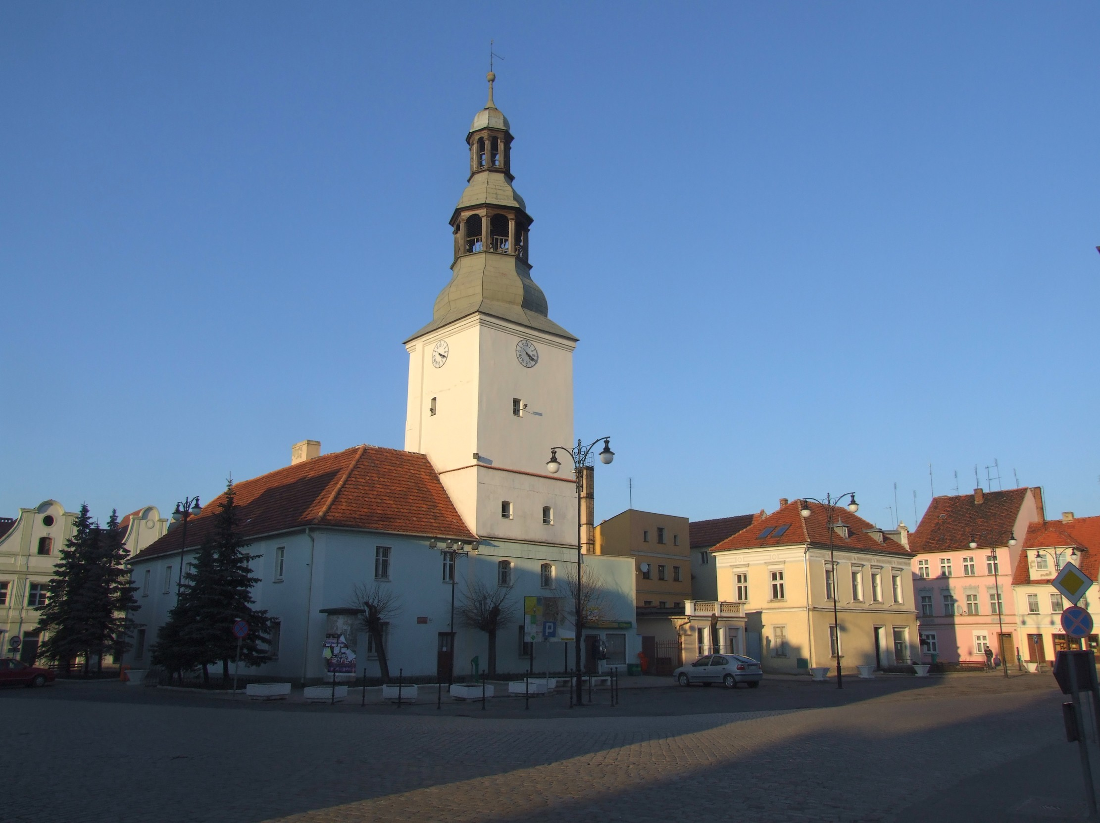 The town hall in Nowe Miasteczko, Poland